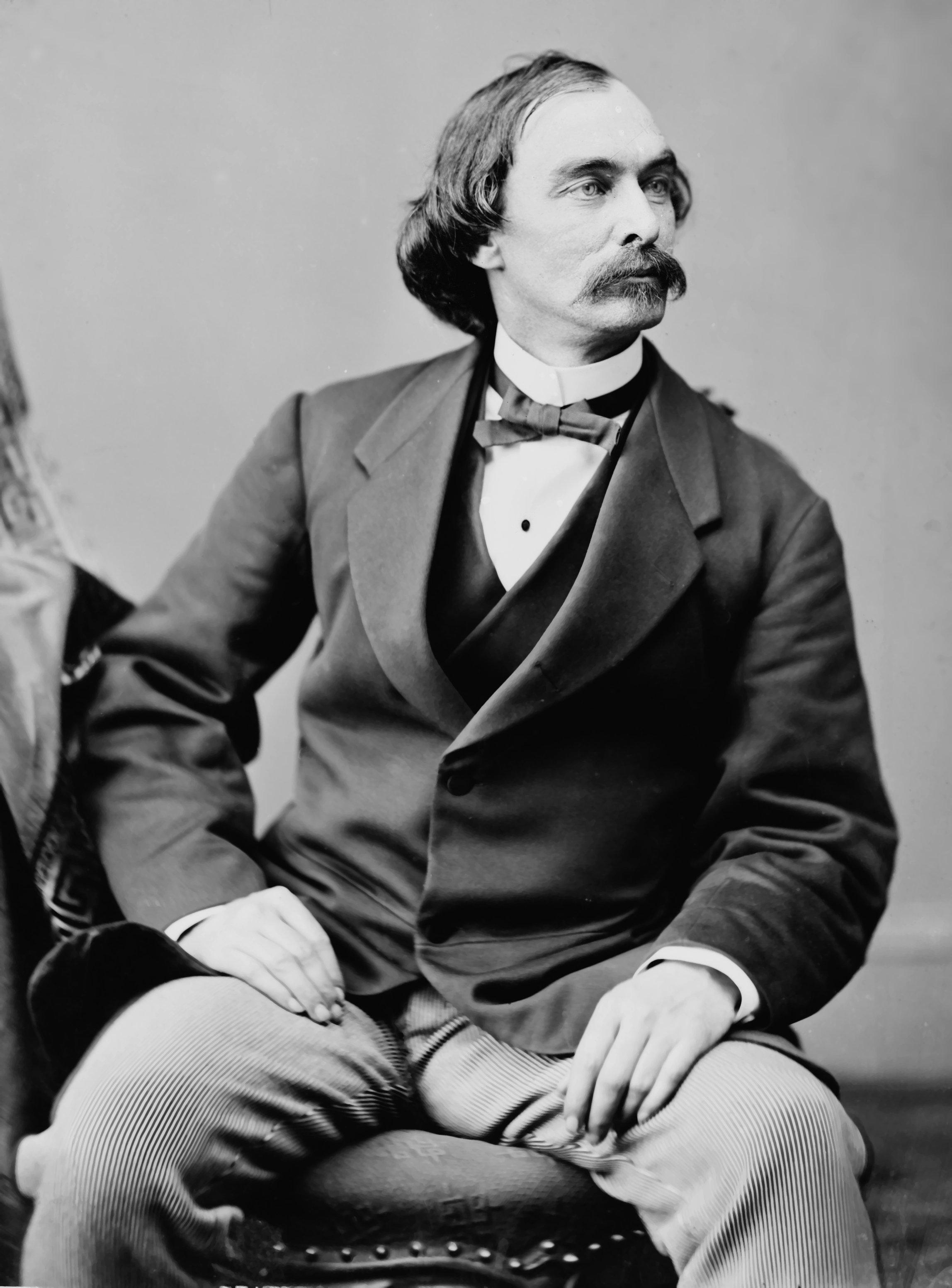 Photograph of 19th Century Arctic Explorer and physician Isaac Israel Hayes.